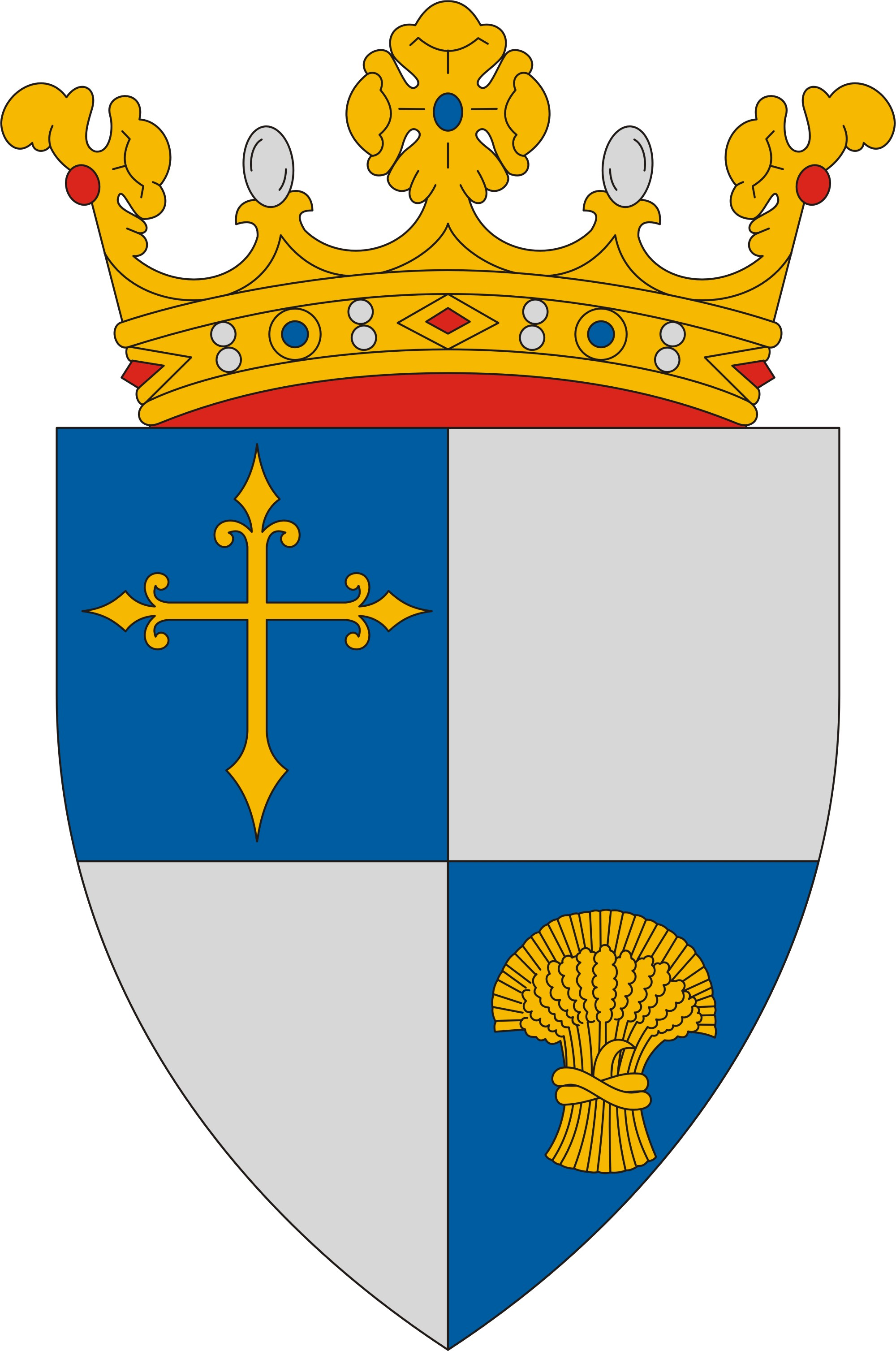 Coat of arms of Bócsa, Hungary